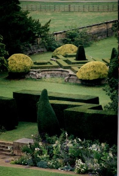 Part of the West Garden at Chatsworth House, Derbyshire.